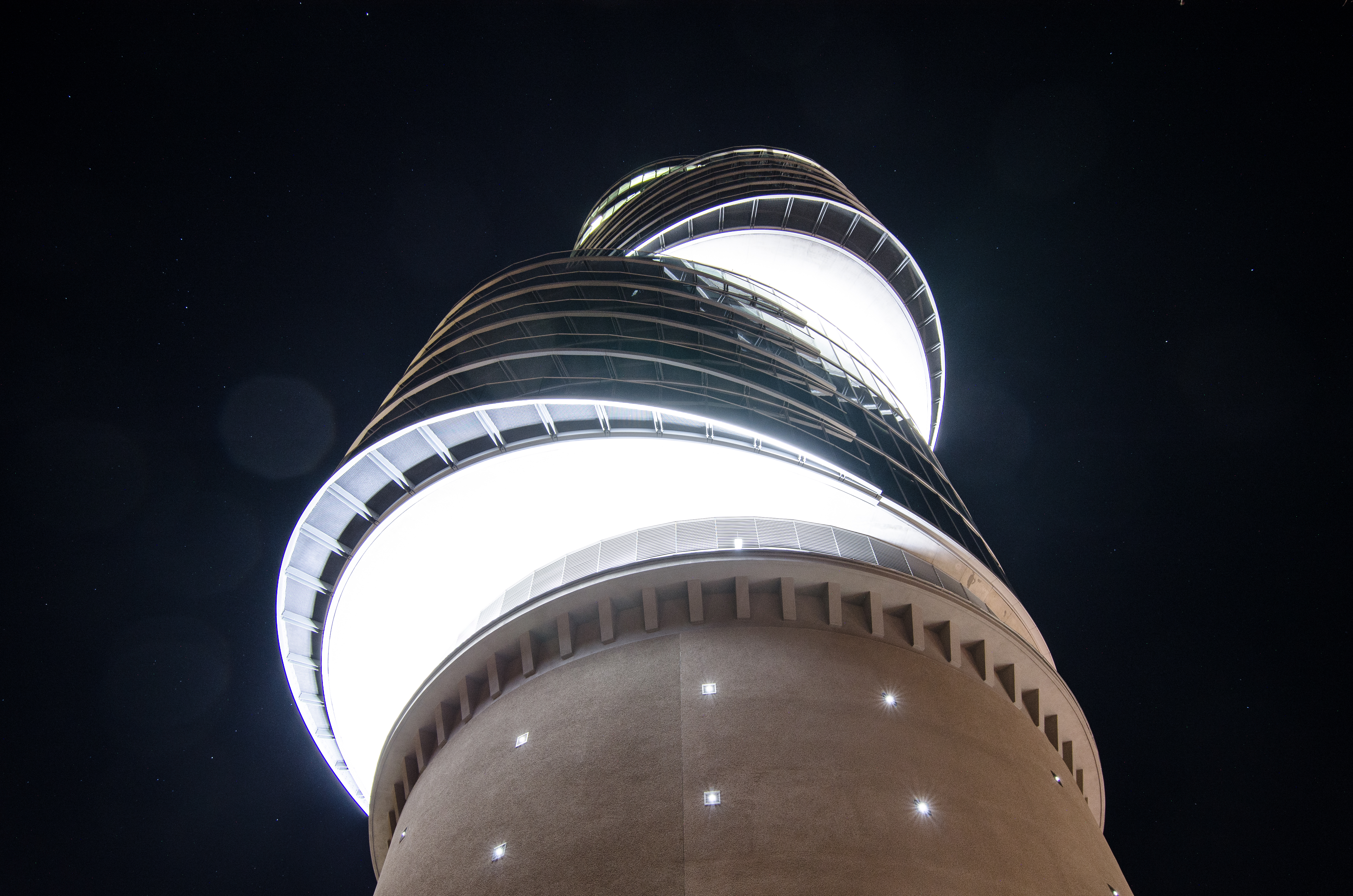 Exzenterhaus bei Nacht